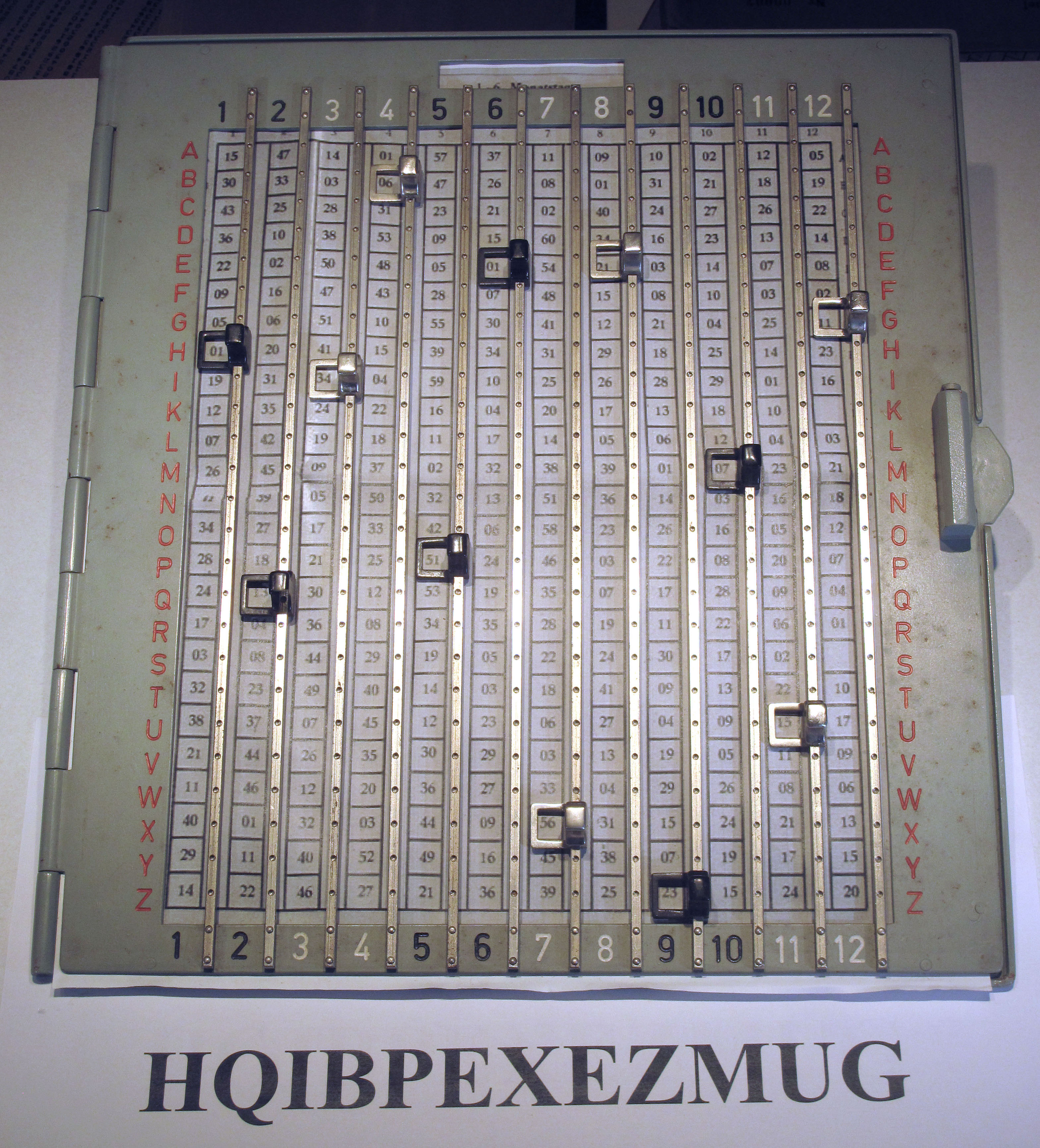 Reading board 40 for the teleprinter message key sheet – also called Message (key) board This device, which can be seen at The National Museum of Computing on Bletchley Park, was used for communicating the indicator for the 12-wheel Lorenz SZ40 rotor cipher machine from its introduction, until October 1942 when a more secure system was introduced. Twelve letters were sent in clear before the enciphered message. The sliders were positioned against the letters and the numerical values for the wheel starting positions were read through apertures from the underlying sheet.